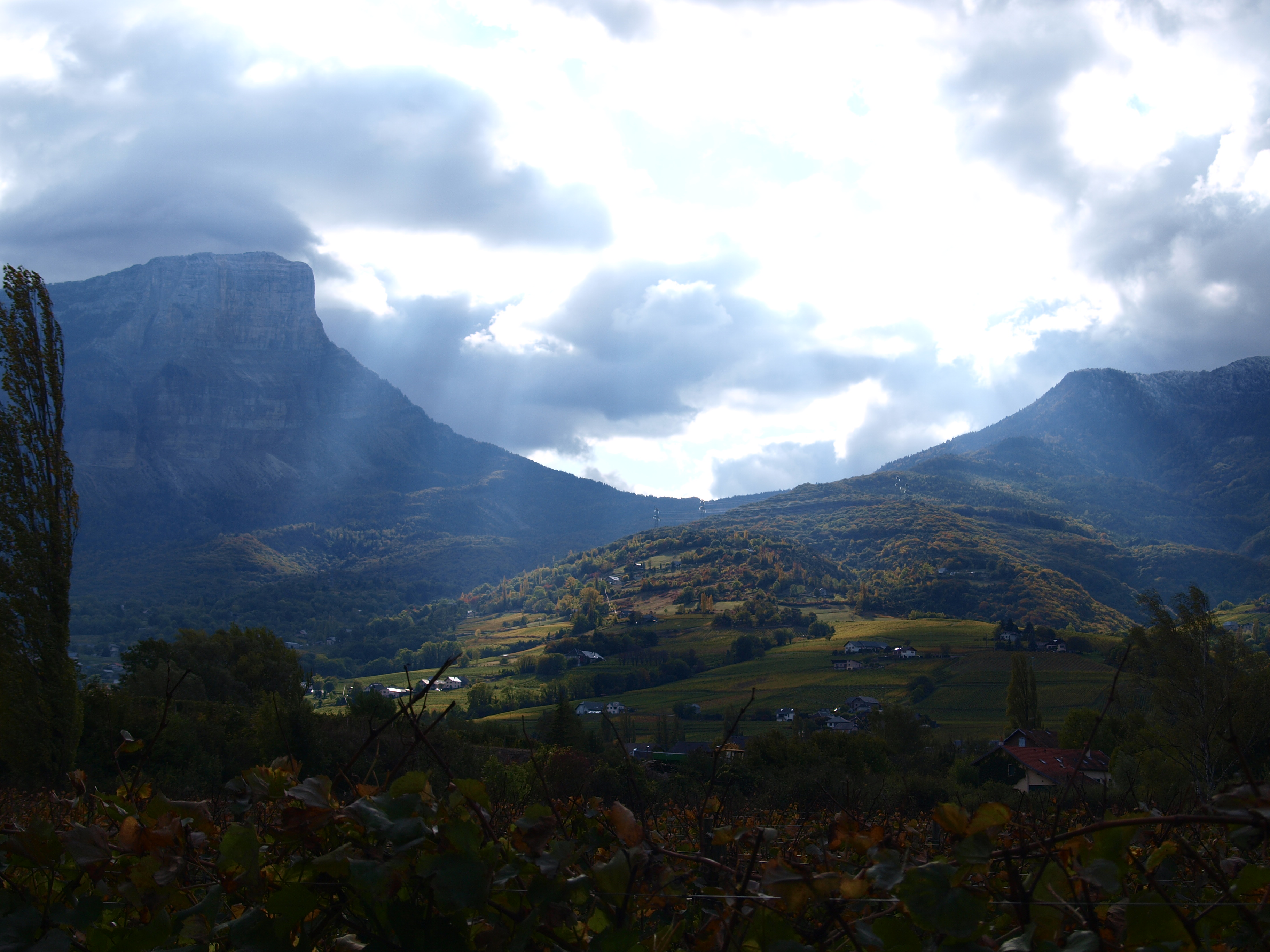 Apremont's wineyards in colorfull october light.